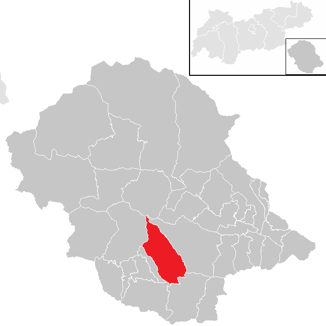 District Lienz